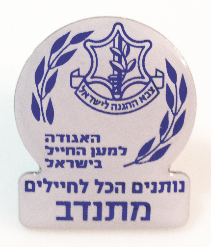 Friends of the Israel Defense Forces